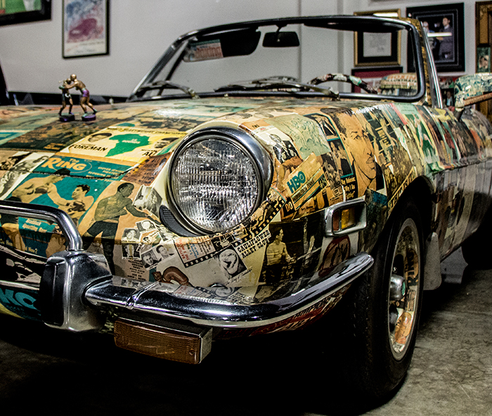 This was Chuck Bodak's Fiat he personally decoupaged and it sits in the Marconi Automotive Museum